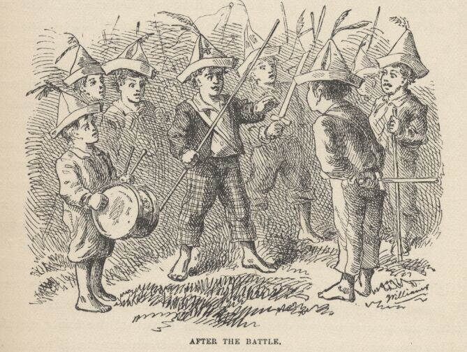 Illustrations de The Adventures of Tom Sawyer, 1876.